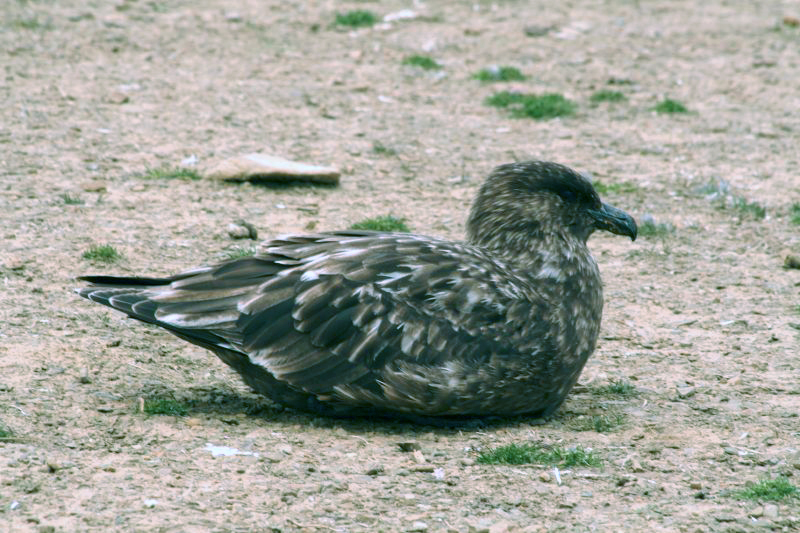 Falklands